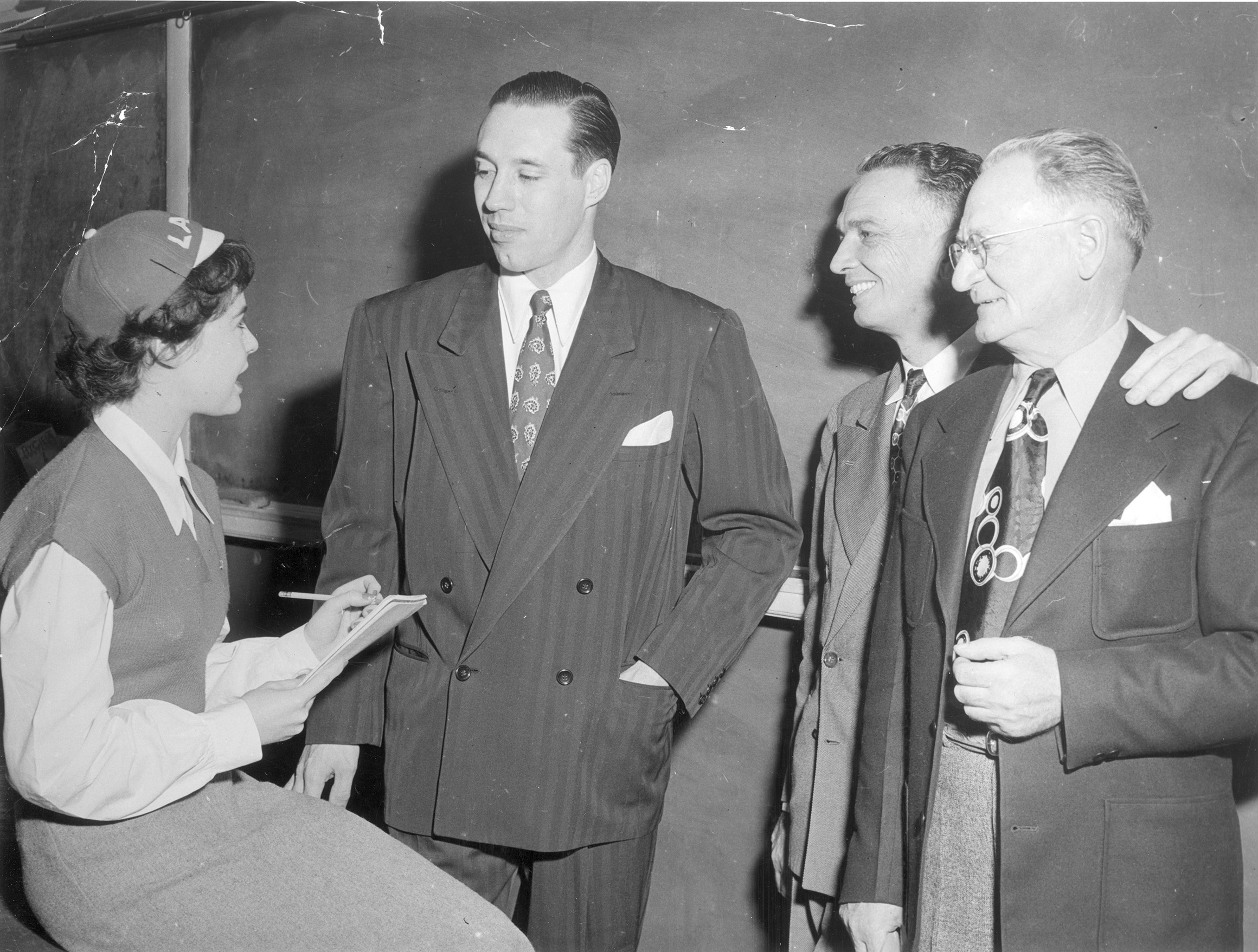 Bob Feller, pitcher for Cleveland Indians, interviewed by Shorthorn editor Vivian Luther; at far right is Harry Ford, Feller's uncle, and second from right is Prof. Duncan Robinson, North Texas Agricultural College.